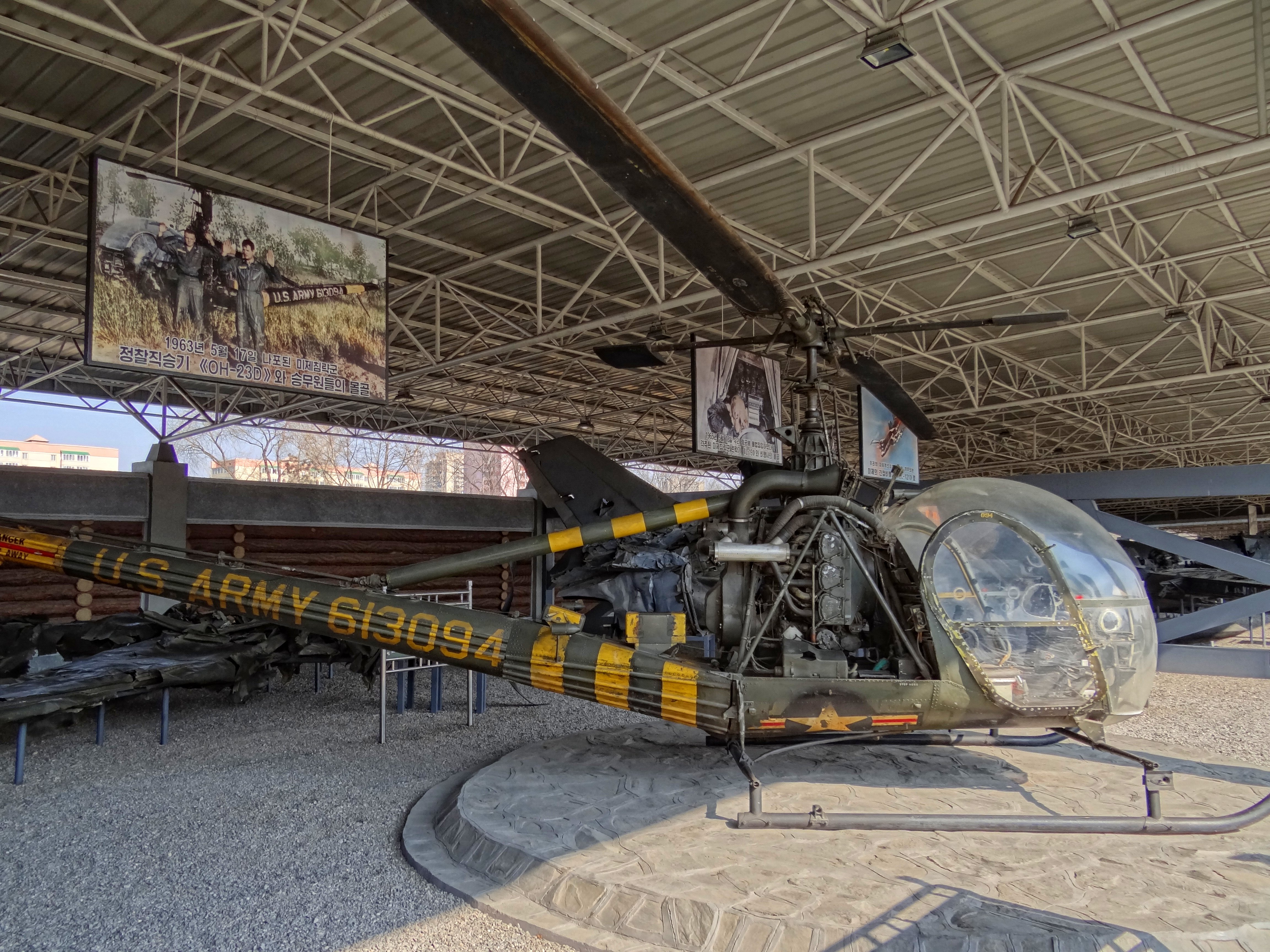 A U.S. Army OH-23 helicopter captured by the North Korean military during what technically was an armistice following the Korean War. The helicopter is on display at the Victorious Fatherland Liberation War Museum in Pyongyang, Korea. Upon capture it had two men on board, Captains Ben W. Stutts and Charleton W. Voltz. The helicopter was shot down by North Korean ground forces after straying north of the Demilitarized Zone. The two men would be freed, after 365 days imprisonment, on May 16, 1964, following the United Nations Command agreeing to sign a statement that the Stutts and Voltz had committed espionage. North Korea declined to return the helicopter.